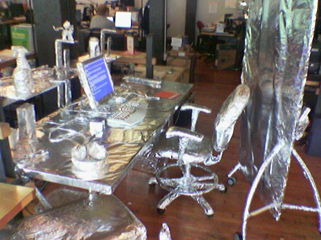 Office prank where a desk, chair, divider and all office items have been covered in aluminium foil.